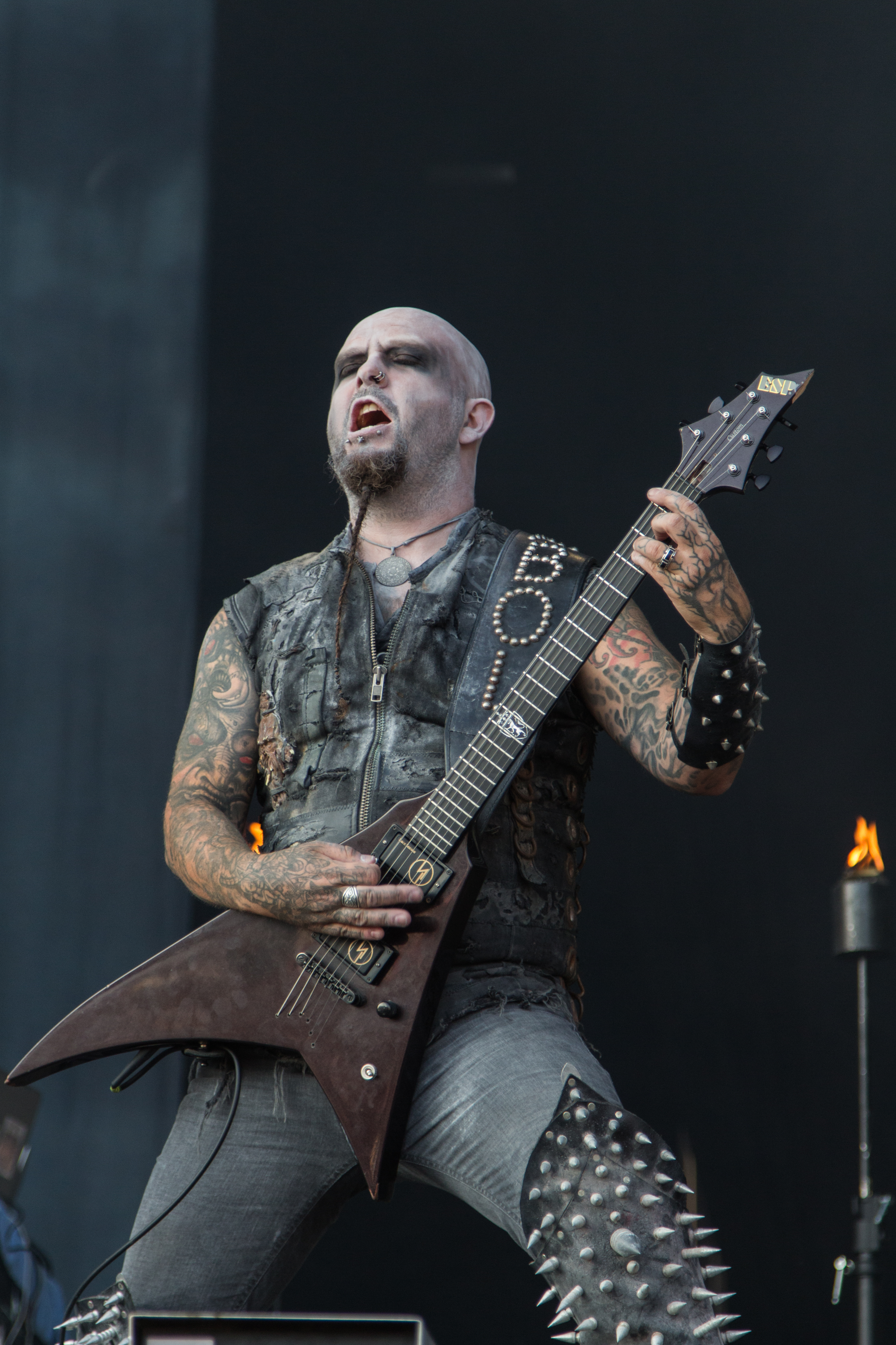 Sven Atle "Silenoz" Kopperud from Dimmu Borgir at the See-Rock Festival 2014